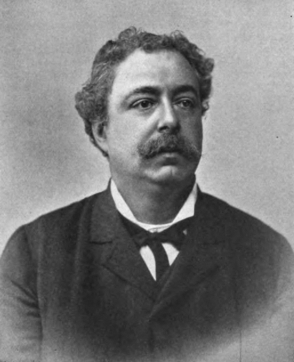 Edmondo De Amicis